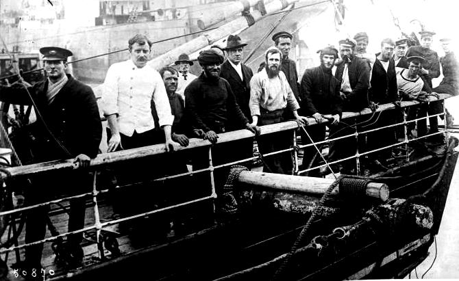 The crew of the ship Aurora